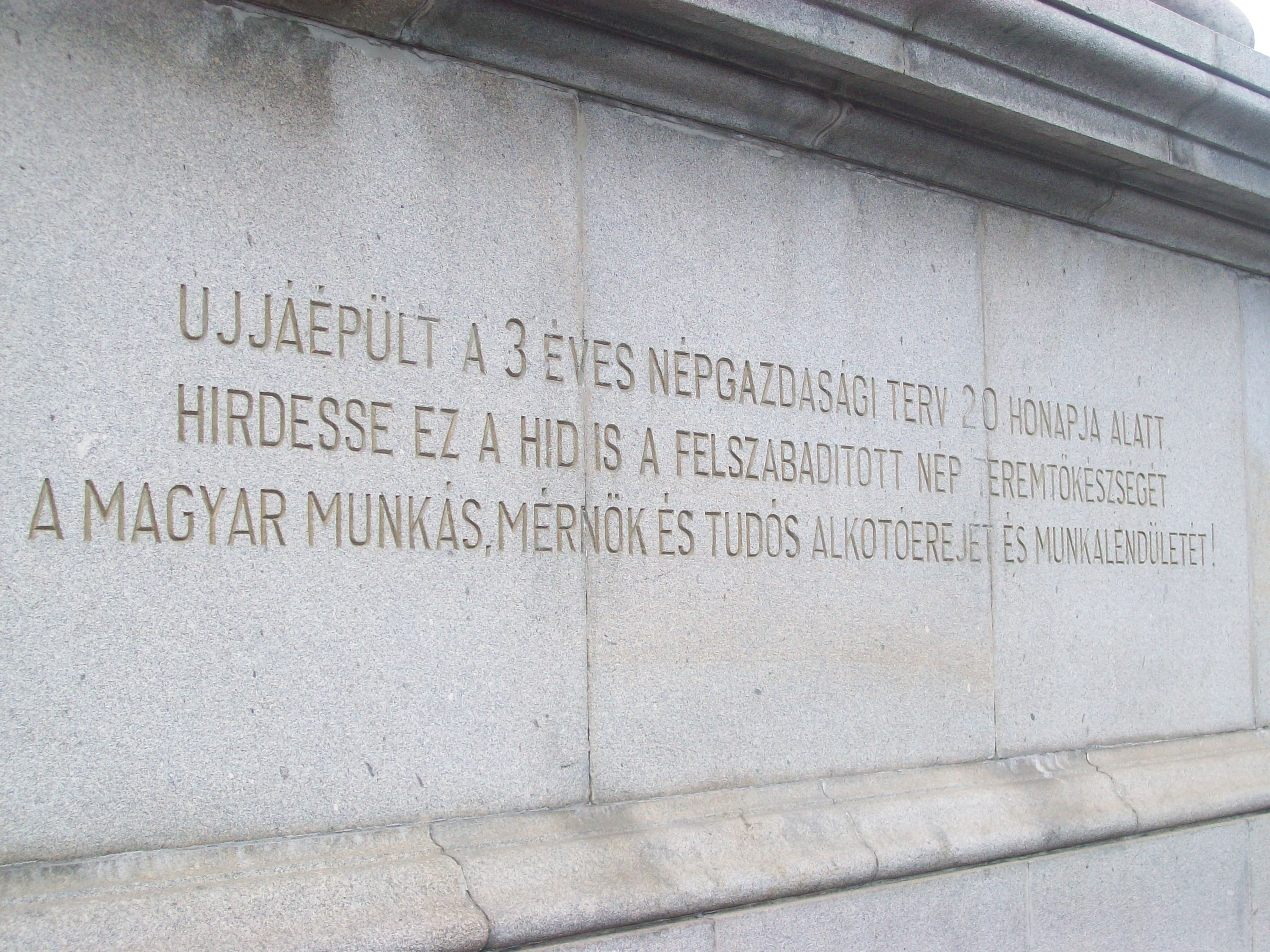 Inscription in Hungarian on the pedestal of the southern stone lion sculpture at the Pest bridgehead of the Lánchíd. It translates to English as: “Rebuilt during the twenty months of the three-year people's economy plan. Should this bridge as well proclaim the creative talent of the liberated people, the constructive force and momentum of work of the Hungarian worker, engineer and scientist!”